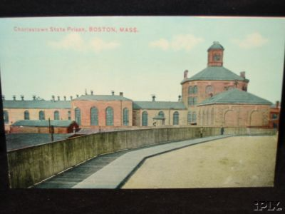 Charlestown, Boston, Massachusetts.